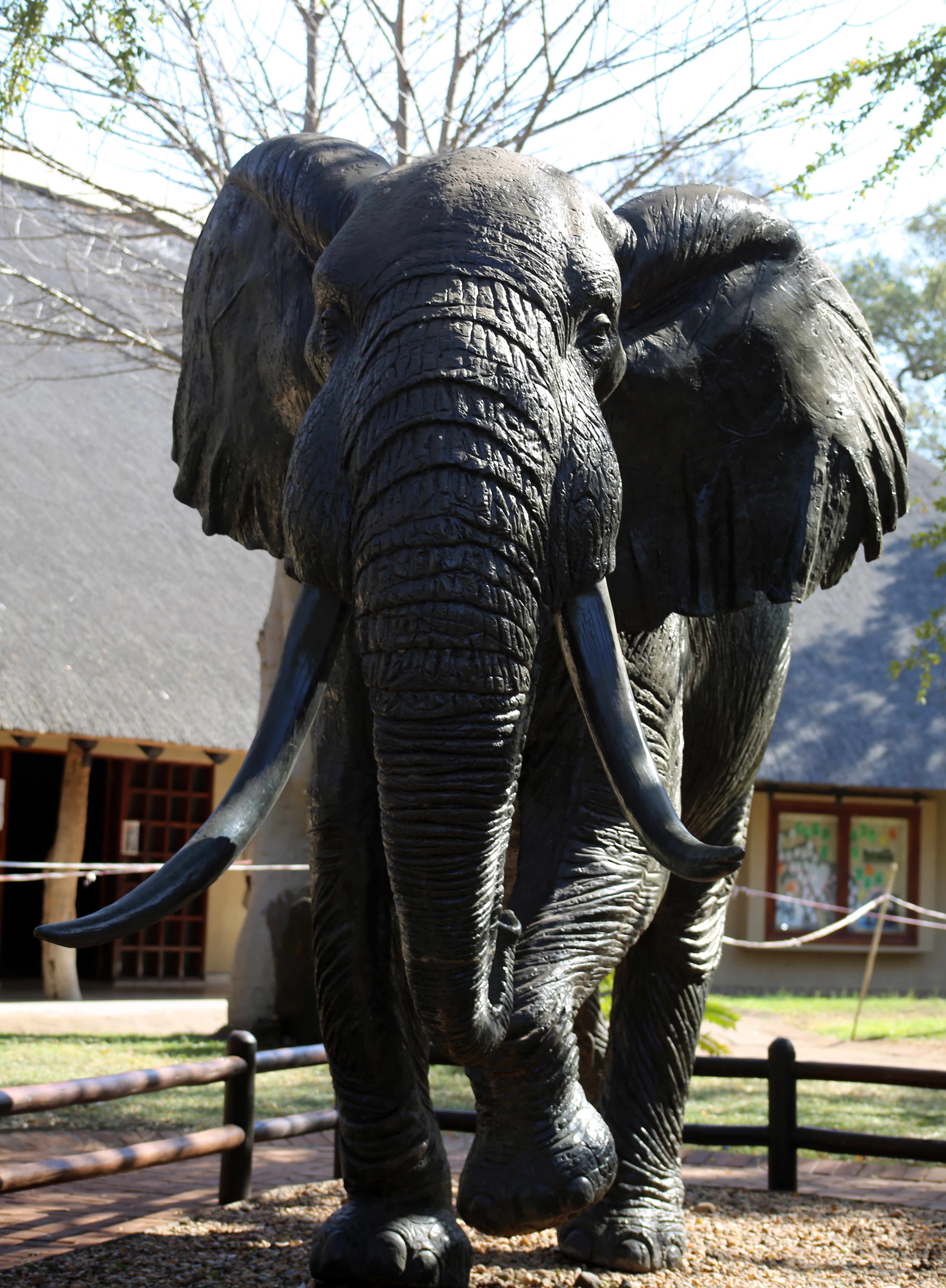 Kruger National Park, South Africa